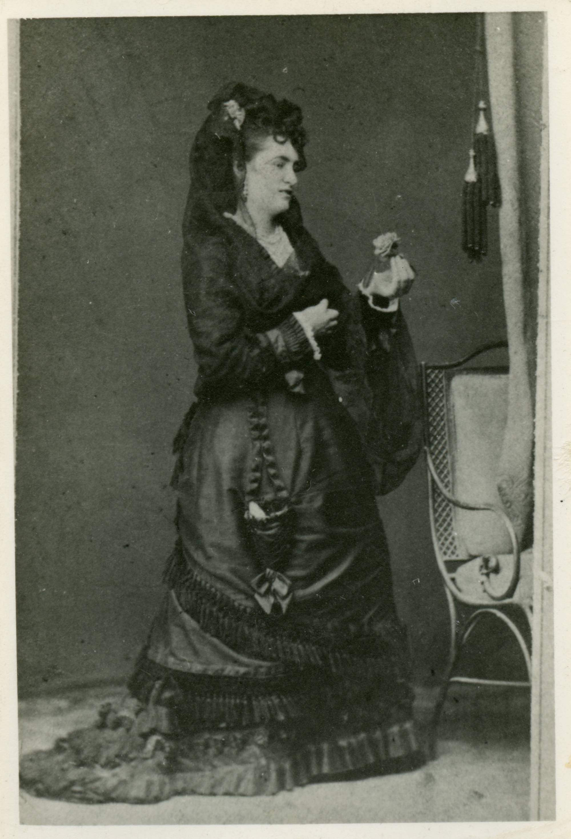 Portrait of actress Ljubica Kolarović. Recorded in Belgrade, in the Đoka Kraljevački photo studio. On the back of the photograph date 26 september 1876